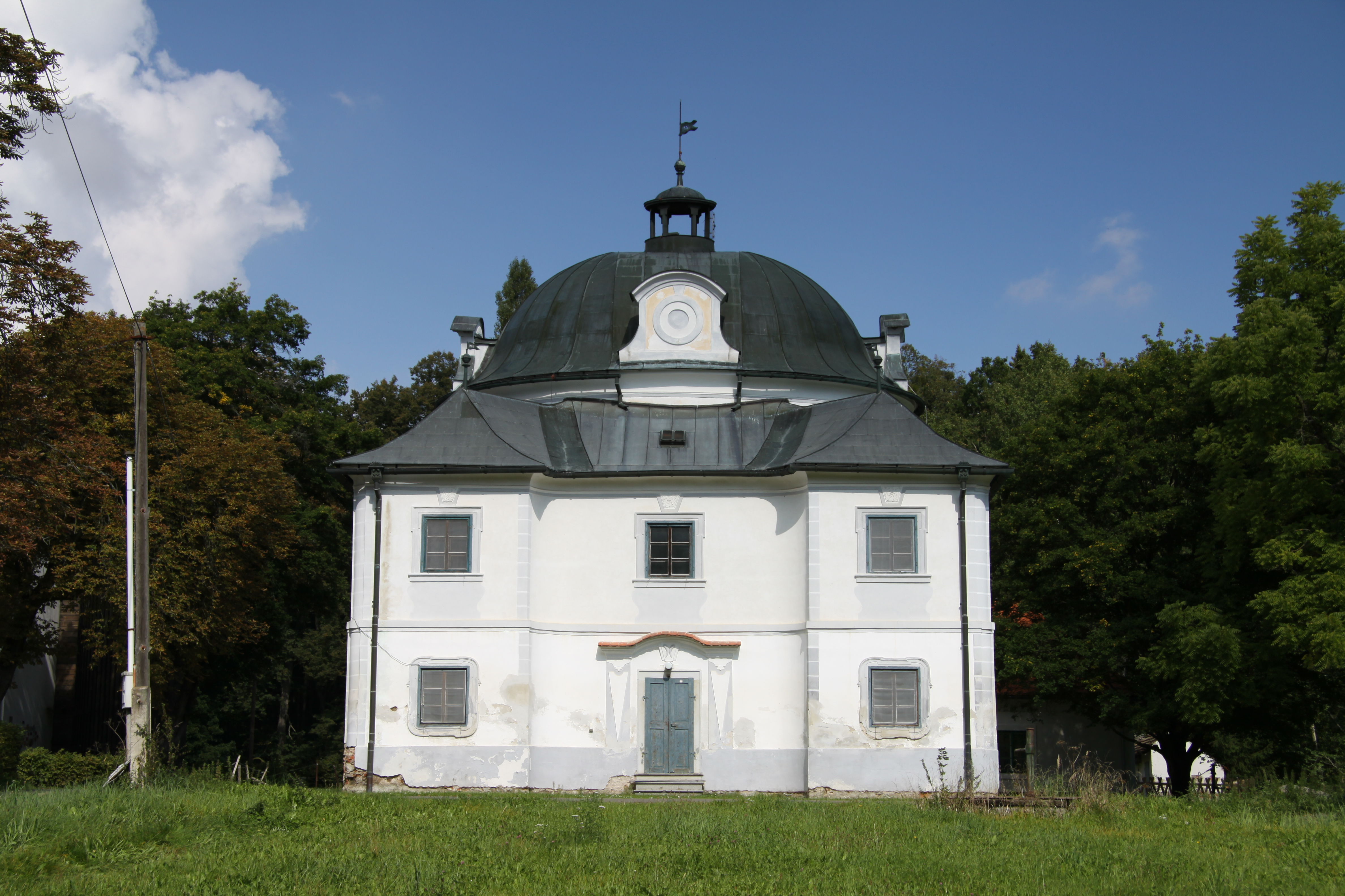 Château in Karlov, part of Smetanova Lhota village in Písek District, Czech Republic.